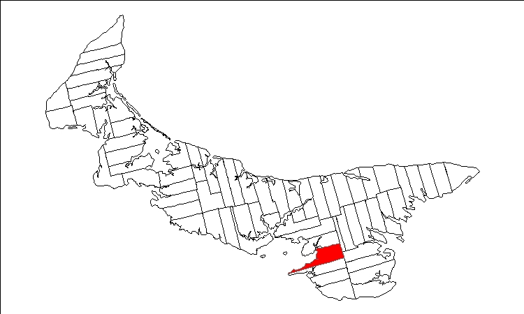 Public domain map of Prince Edward Island created by User:Plasma east with data courtesy of Geogratis, modified to show townships. Released under GFDL (self).